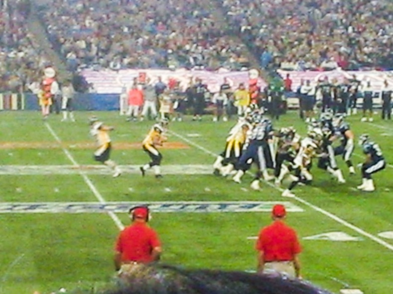 Toronto Argonauts vs. Hamilton Tiger-Cats at Rogers Centre (SkyDome), Toronto, Ontario, Canada.